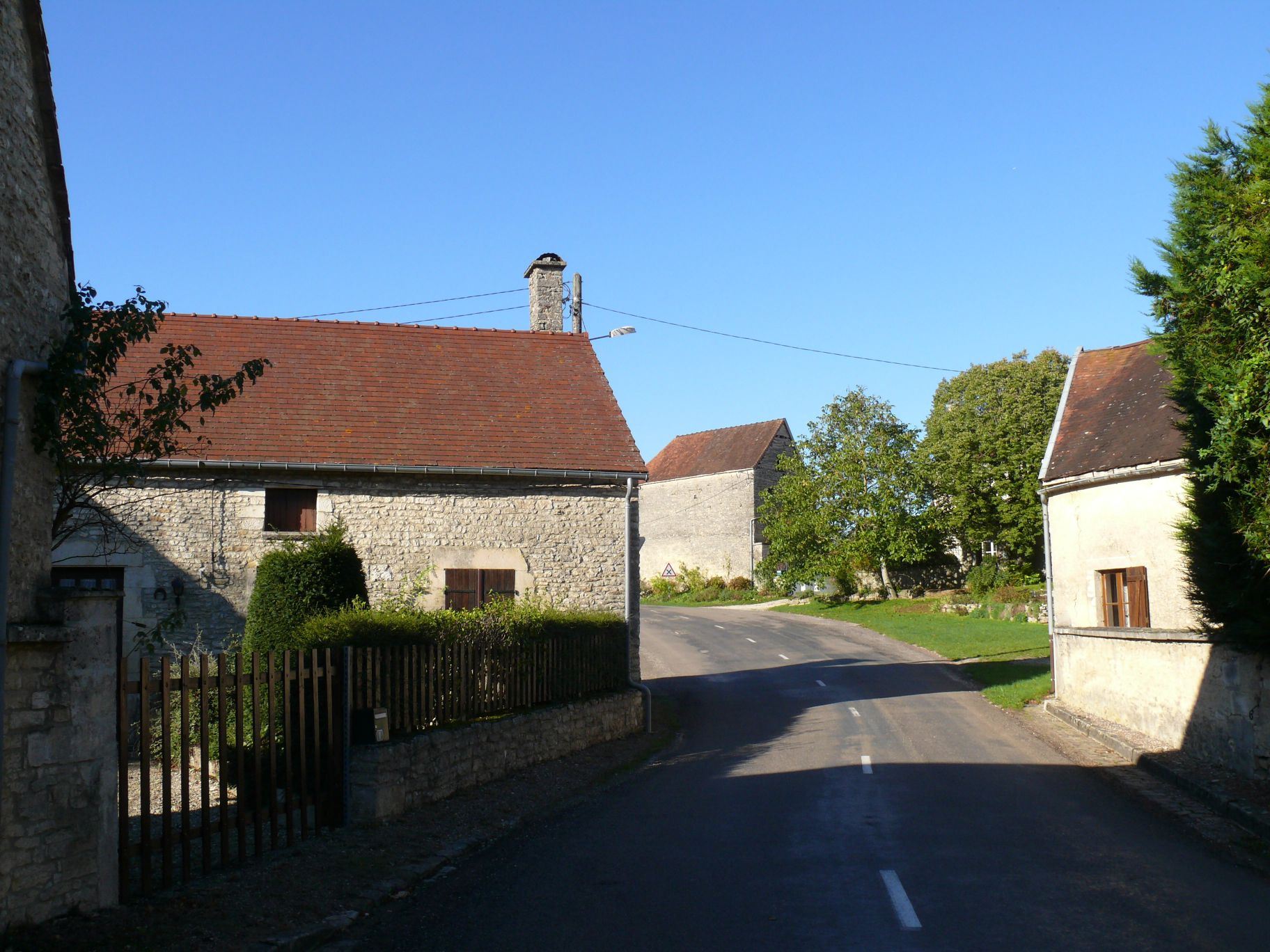 Street in Pargues (Aube, Champagne-Ardenne, France).